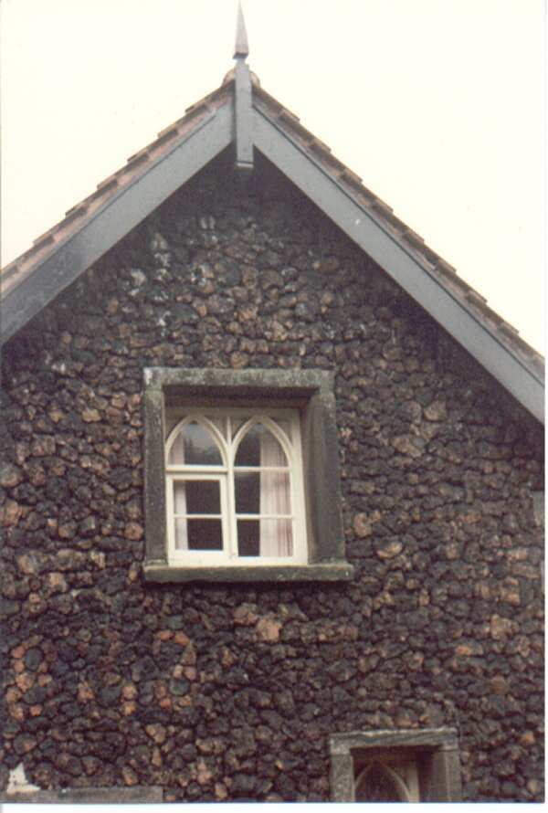 I took this picture along with my father and can be found at [1]